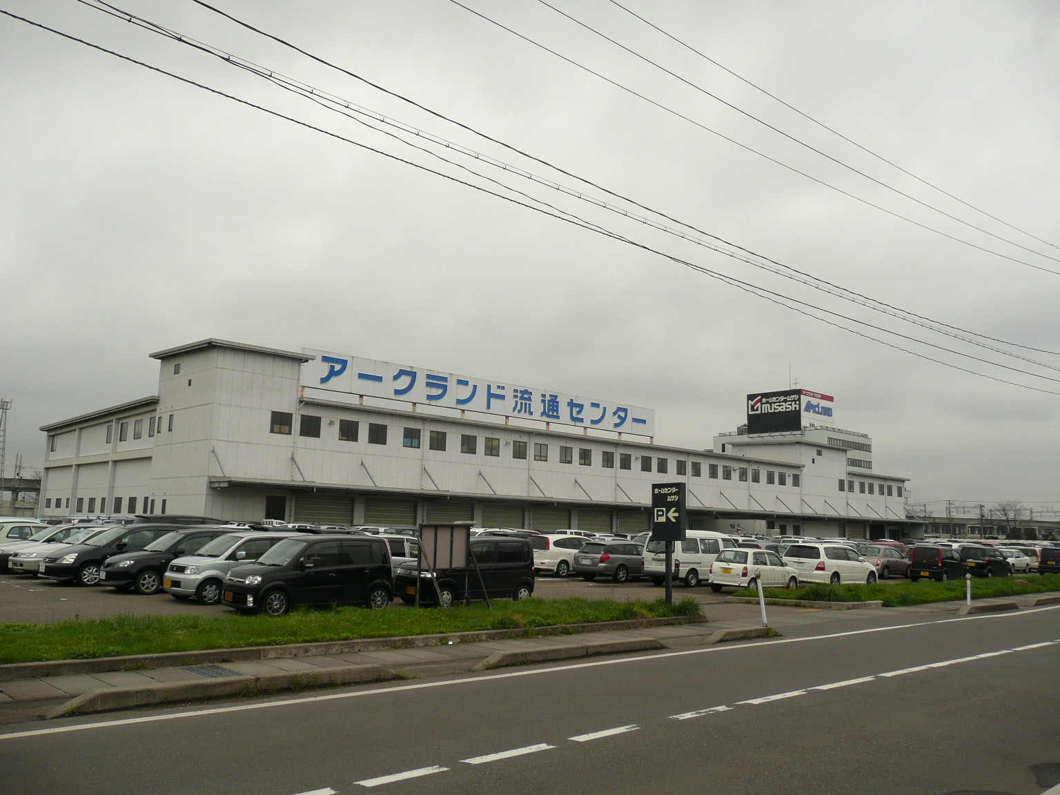 アークランドサカモト 本社。新潟県三条市。 The head office of Arcland Sakamoto Co., Ltd. in Sanjō, Niigata, Japan.